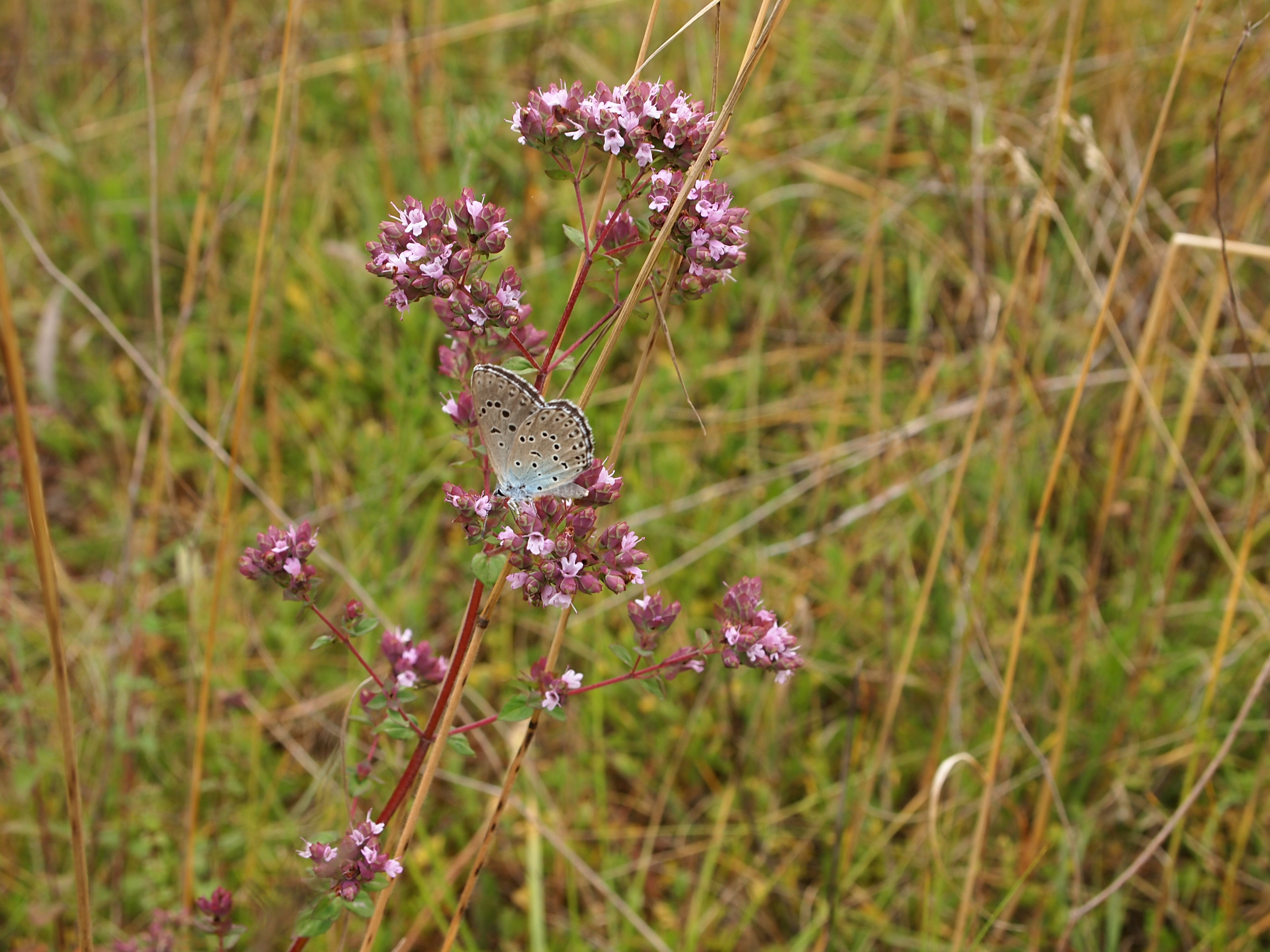 Phengaris arion (Natura 2000 Vallée de l'Antenne, Saint-Sulpice-de-Cognac, Charente, France)